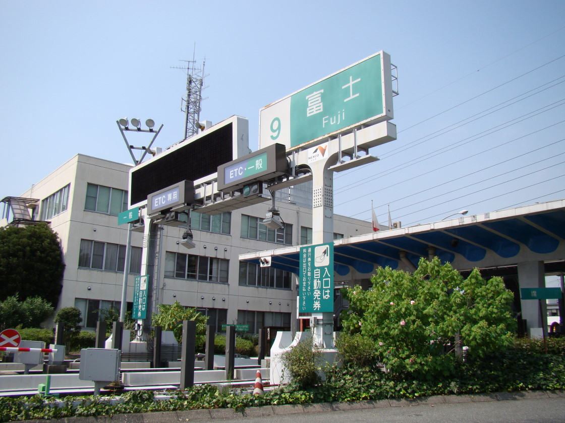 Tomei expressway Fuji interchange toll gate